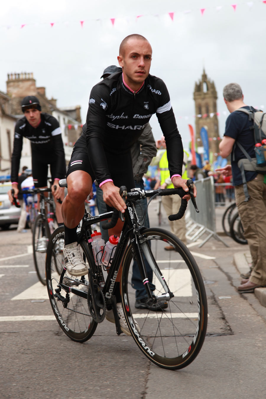 Tour Of Britain 2011